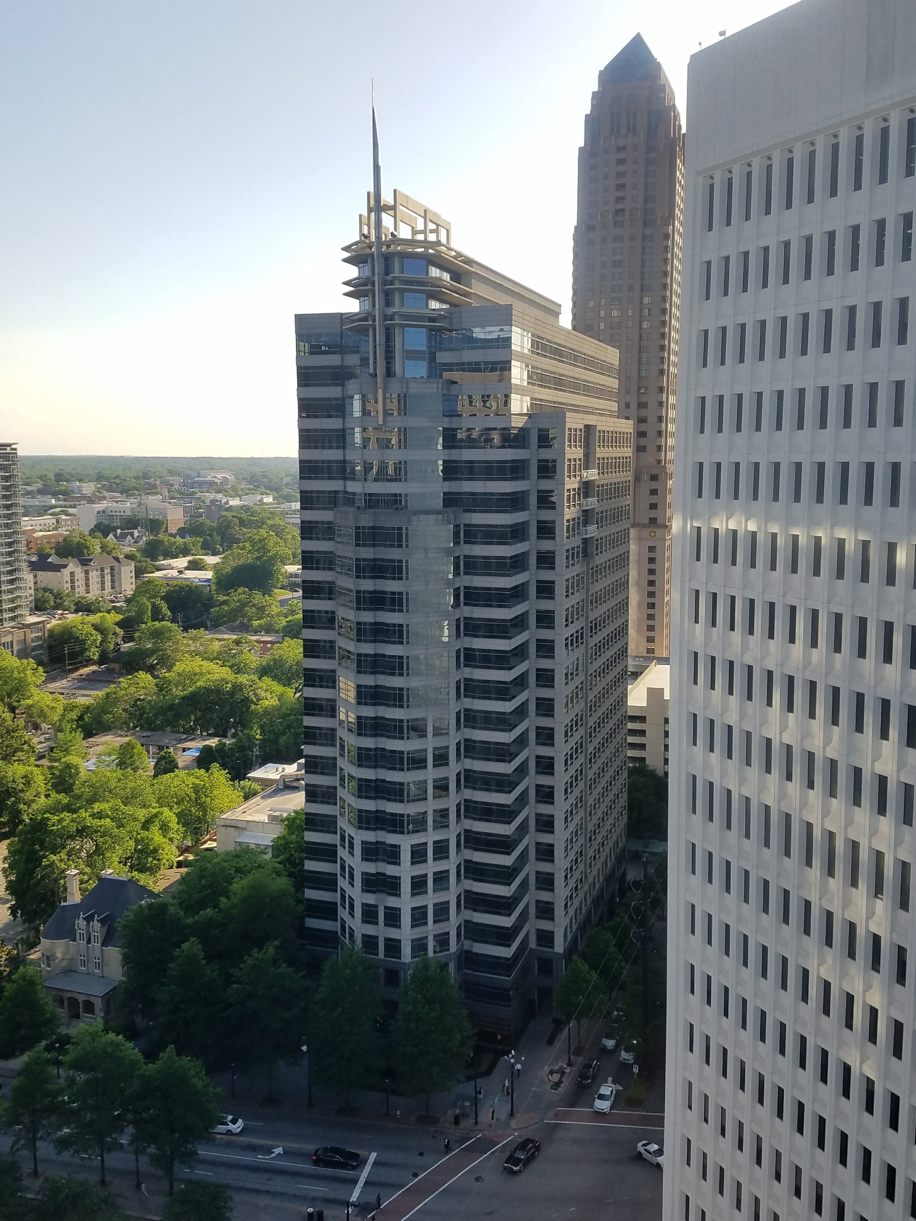 The east side of The Proscenium, viewed from the top floor of W Hotels